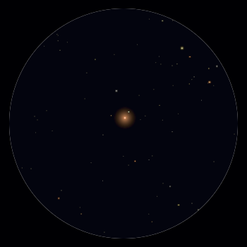 Enif